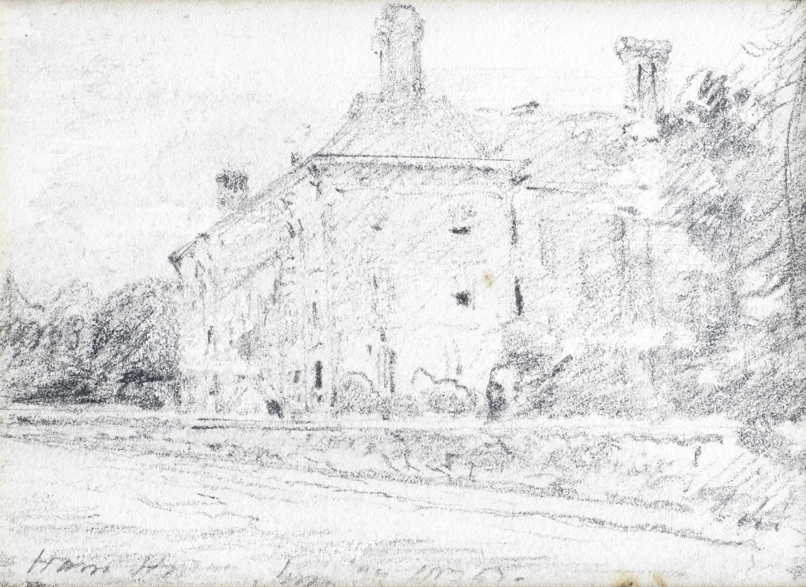 Ham House. Inscribed and dated 'Ham Ho[use].Jun 2(?7) 1835' (lower left). Pencil. 16.5 x 14 cm